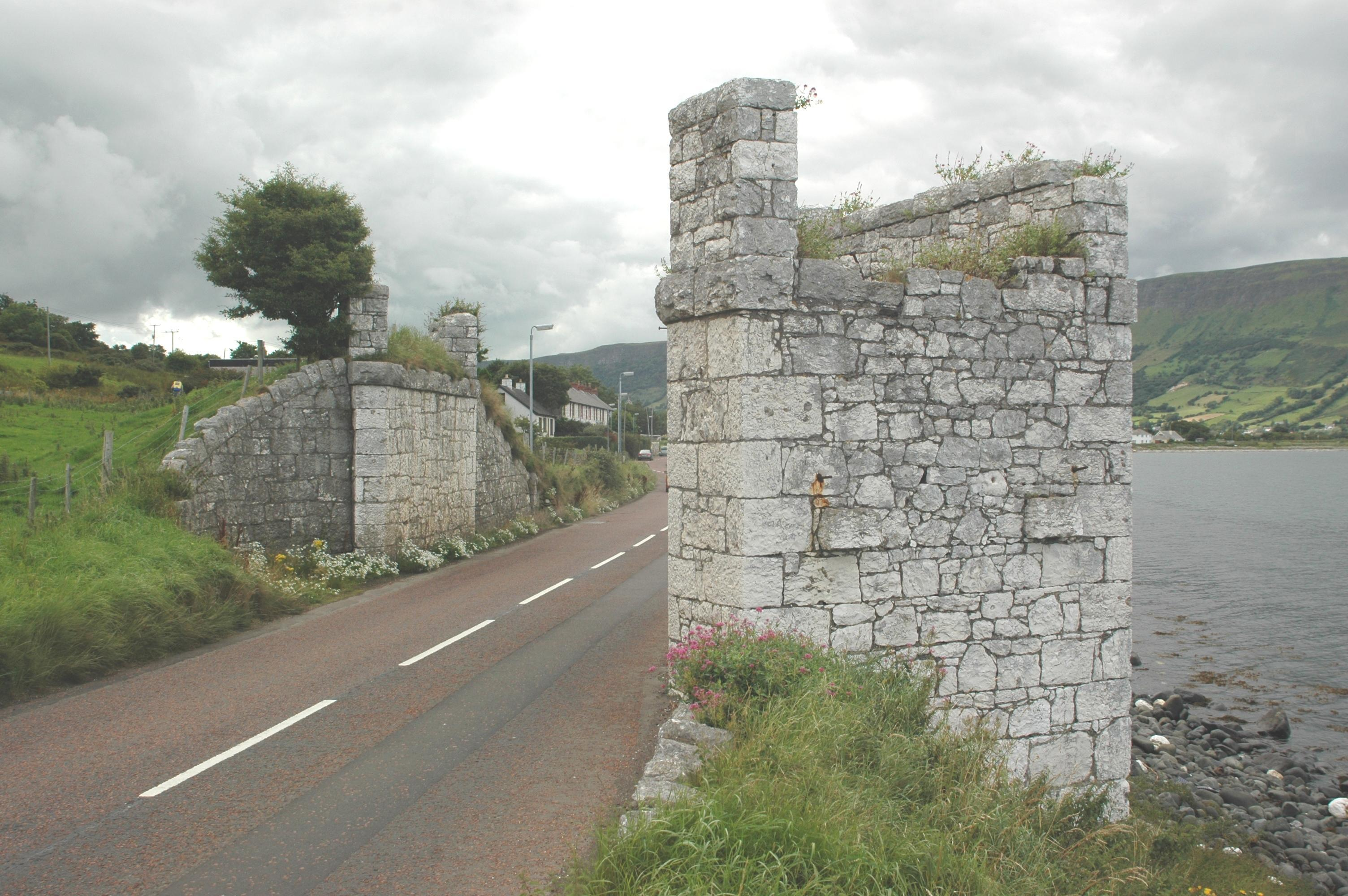 White Arch, Garron Road, Waterfoot, Glenariff, County Antrim, Northern Ireland.